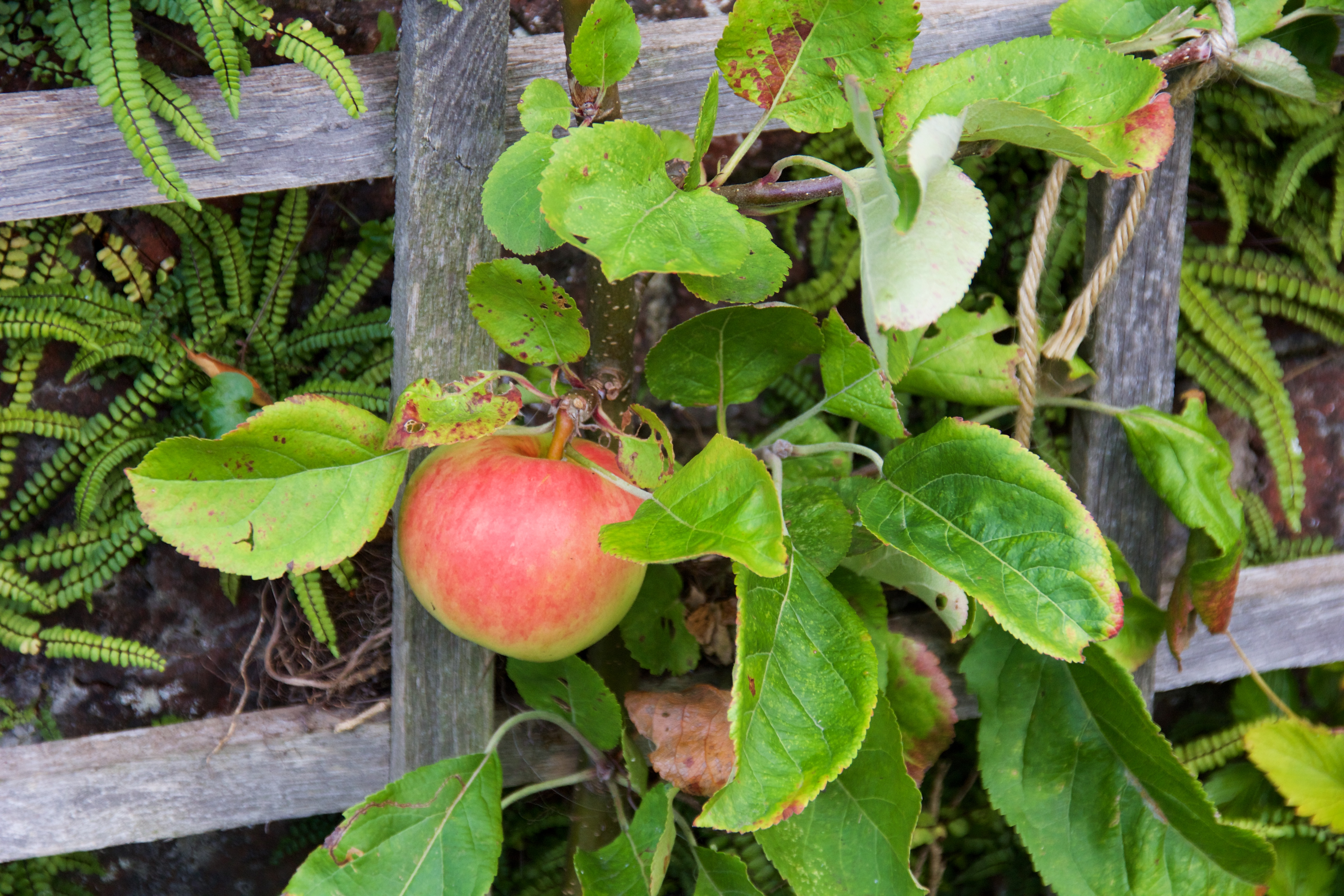 Hawthornden Apple Culinary (1780). Wordsworth House, United Kingdom